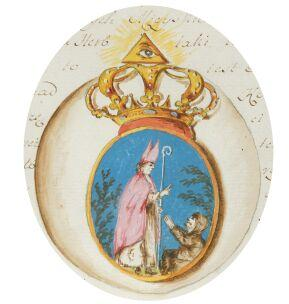 Coat of Arms of Žiežmariai city in 1791